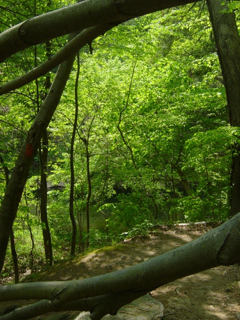 Fairmount Park near where Cresheim and Wissahickon Creeks meet.